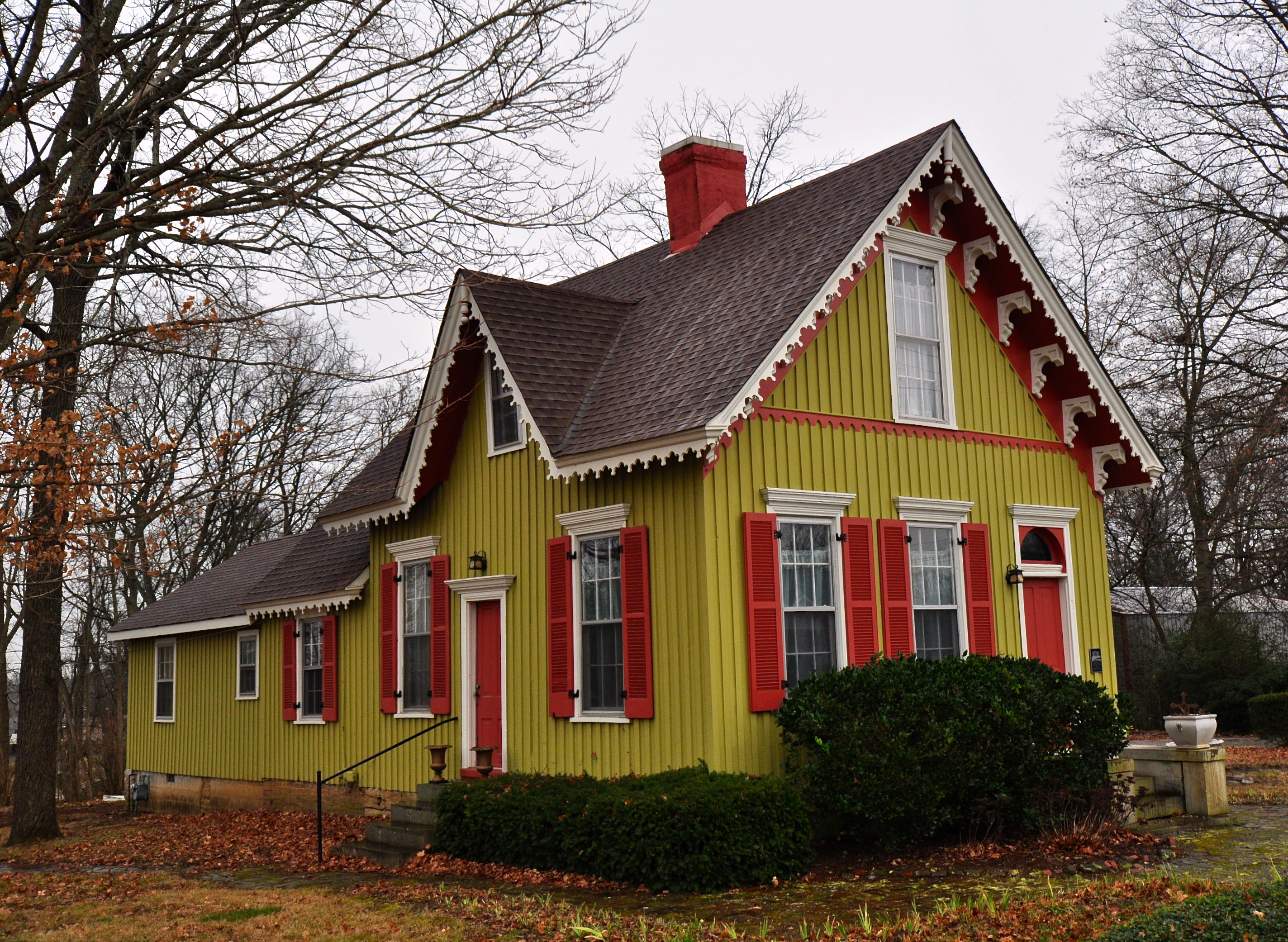 Also known as "The Kissing House."